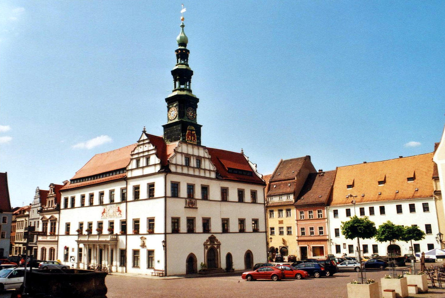 Pirna: This image shows the marketplace and the townhall.